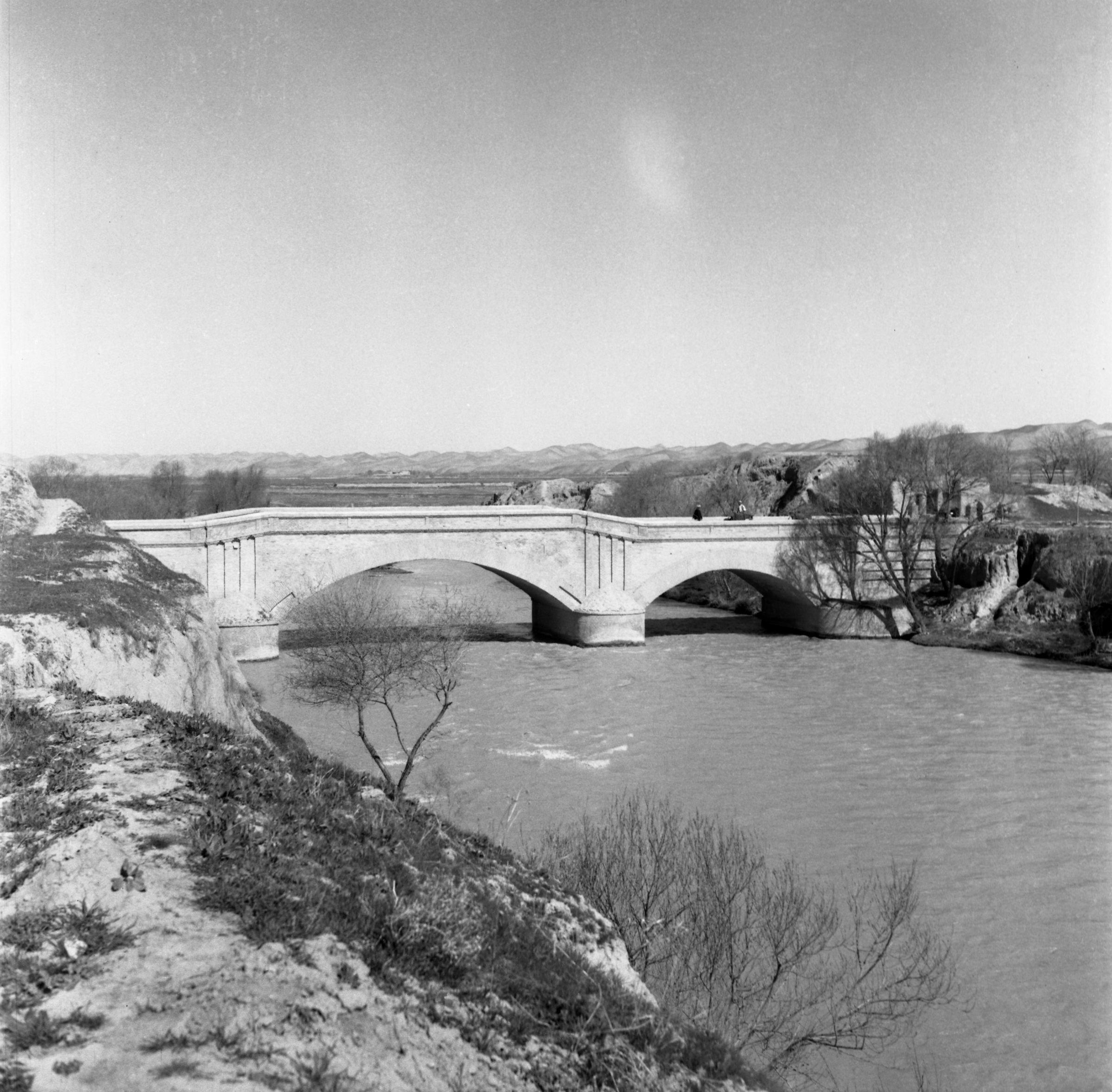 Bala Murghab, the bridge over Murghab river.